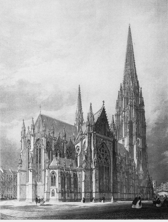 St. Nikolai church Hamburg, Germany. Design George Gilbert Scott 1846.